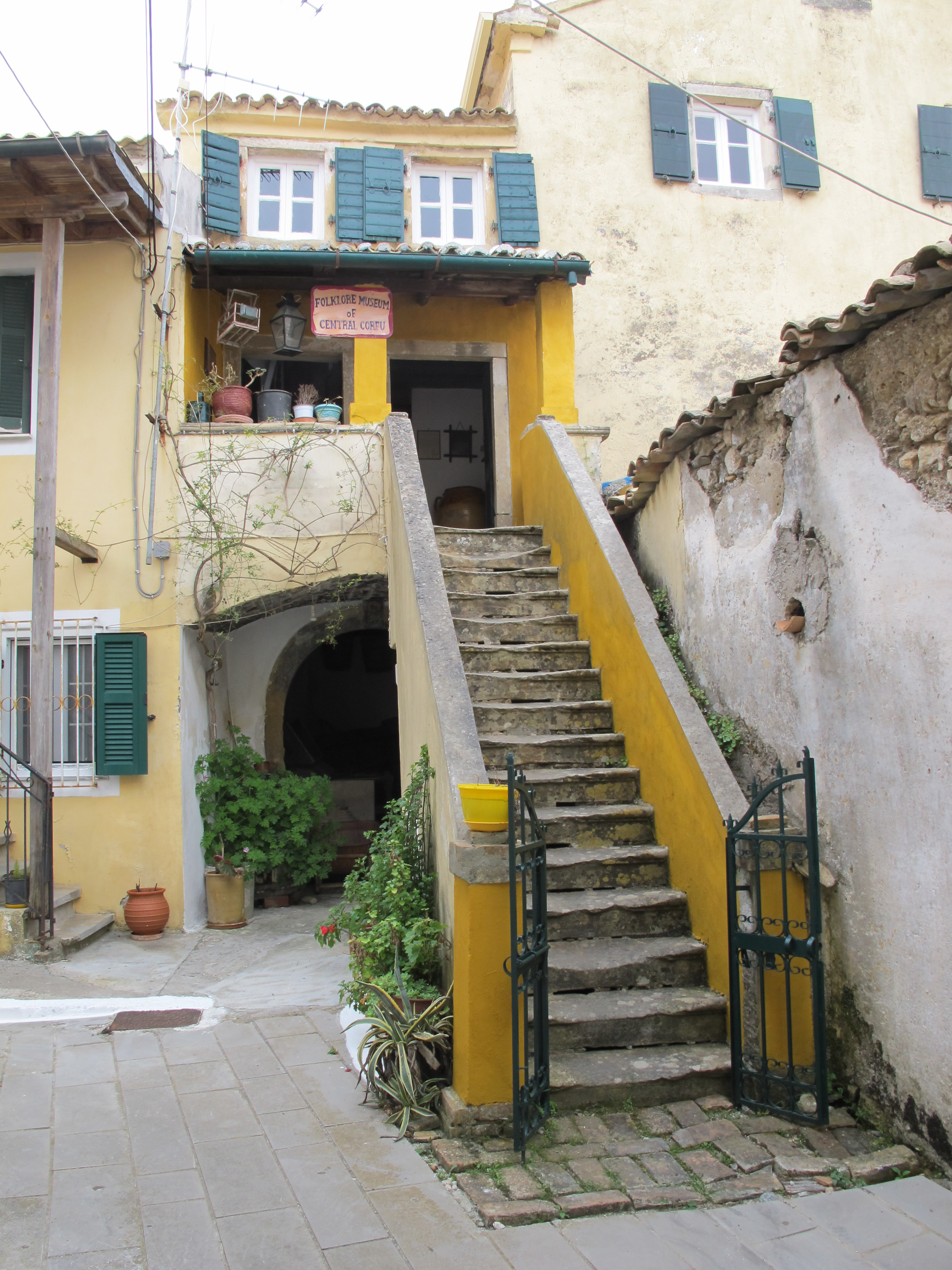 Entrance to the Folklore Museum at Sinarades